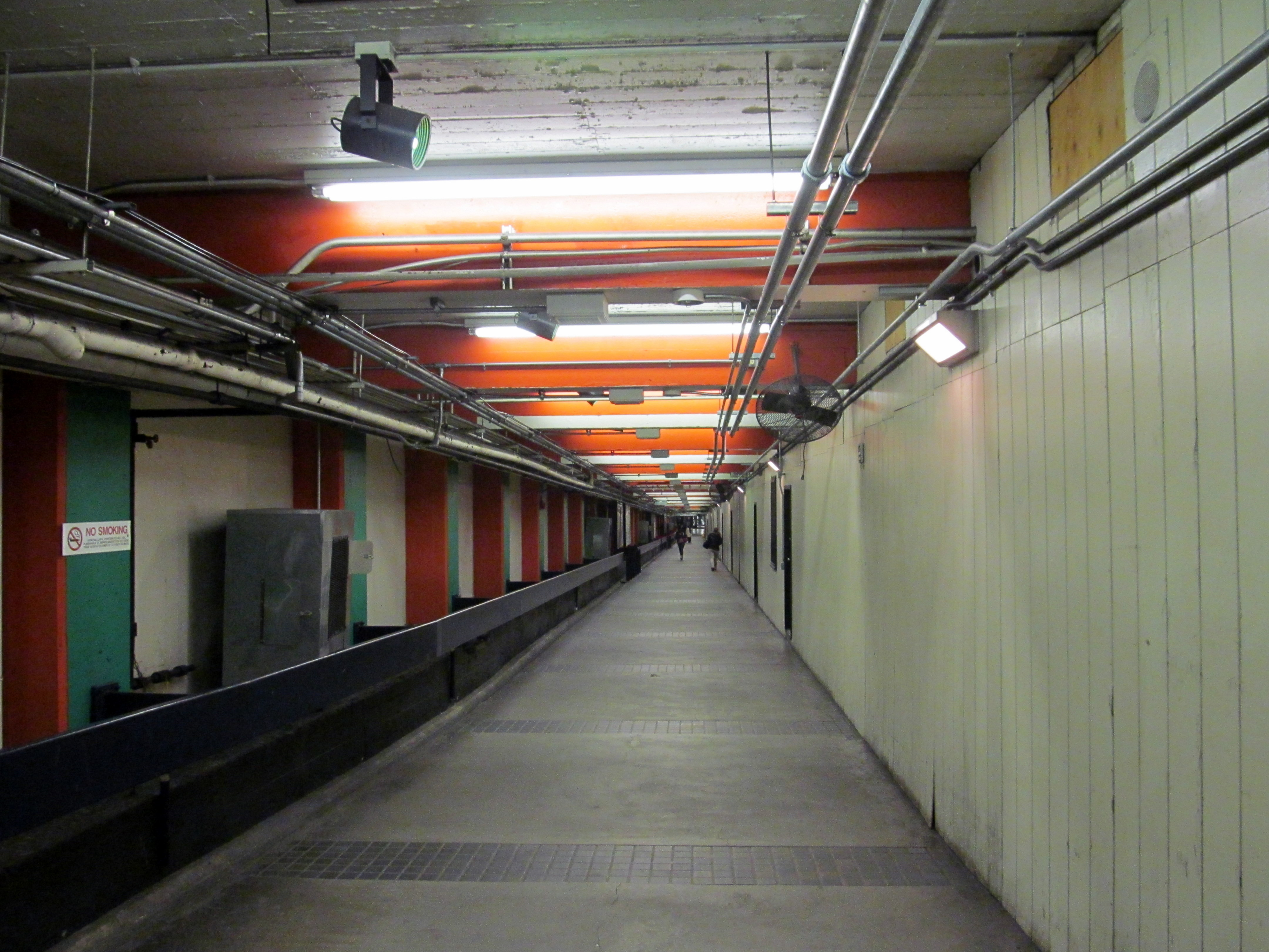 Winter Street Concourse facing Downtown Crossing in 2012